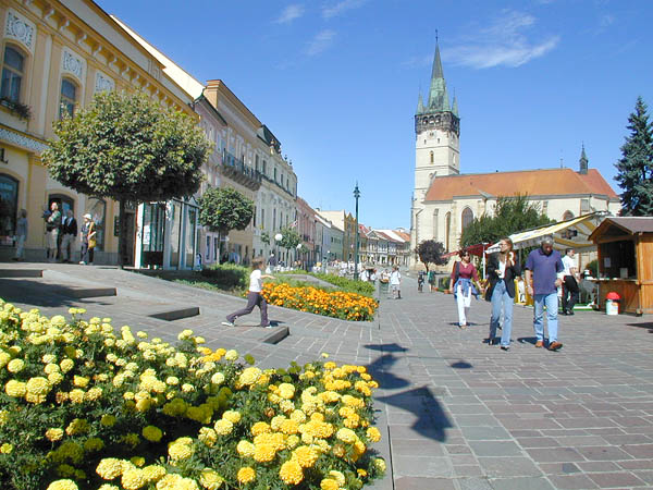 marek